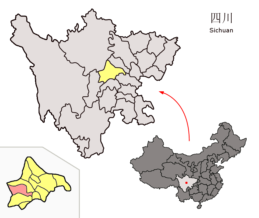 Location of Dayi County (pink) and Chengdu Prefecture (yellow) within Sichuan province of China Map drawn in september 2007 using various sources, mainly : Sichuan province administrative regions GIS data: 1:1M, County level, 1990 Sichuan Counties map from